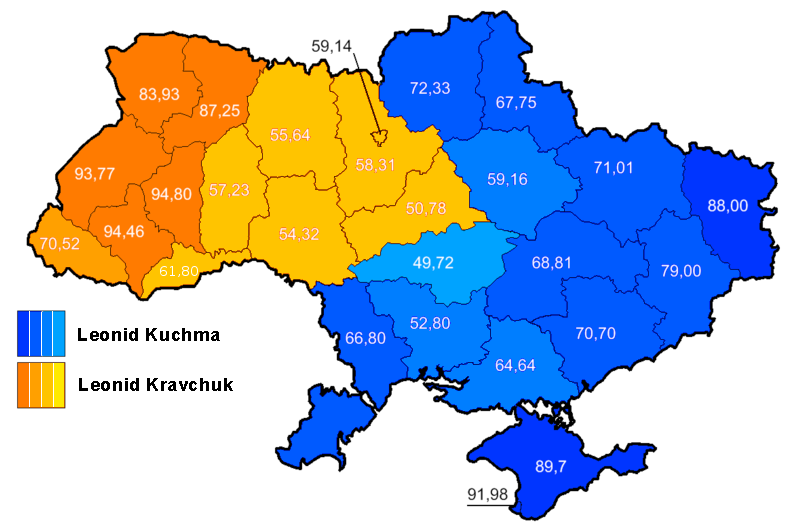 This map shows the results of the second round of the Ukrainian presidential elections of 1994, when Leonid Kuchma defeated Leonid Kravchuk. The map elaborates on the map of the 1994 elections made by Vasyl` Babych. I've taken his file, but instead of using only three colours (majority vote for Kravchuk, majority vote for Kuchma, plurality vote for Kuchma}, I used seven colours, to indicate the different levels of support. I also included the result for the Chernivtsi Oblast, which was missing in the original map.